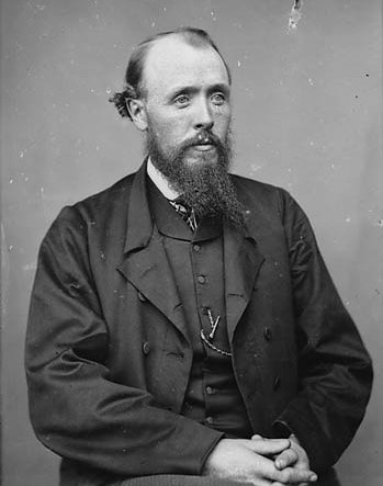 1 negative : glass, wet collodion, b&w ; 11 x 16.5 cm.